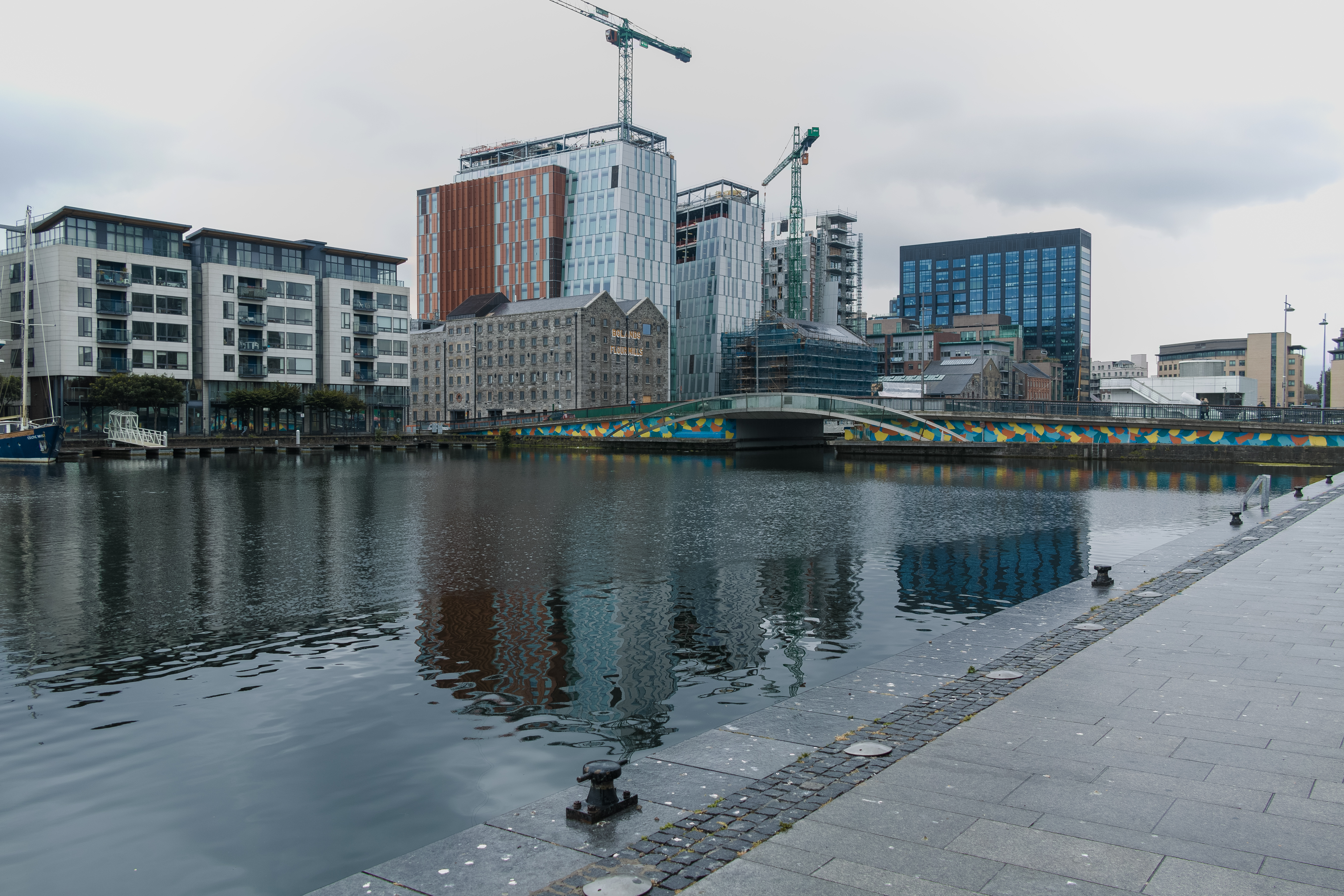 Grand Canal Square, an urban space in Dublin's Docklands, was opened in June 2007. The square is located at Grand Canal Dock on the south side of the river Liffey between Sir John Rogerson's Quay and Pearse Street. Designed by American Landscape Architect, Martha Schwartz and developed by the former Dublin Docklands Development Authority, the 10,000 sq metre square is one of the largest paved public spaces in Dublin city. The €8 million project is among the most innovative landscape design projects ever undertaken in Ireland and Grand Canal Square is expected to become a key cultural destination for Docklands and the city. Grand Canal Square is located at the west end of Grand Canal Dock with one side facing out on to the water. The tinted glass office building designed by Duffy Mitchell O'Donoghue - No.1 Grand Canal Square - is on the south side, with the Daniel Libeskind designed Grand Canal Theatre on the east side and the Manual Aires Matues designed 5-star hotel on the north side of the Square. There are shops, cafés and restaurants at ground floor level. The Square is built over an underground car park at the centre of the Grand Canal Dock development area. The Square features a striking composition of a red "carpet" extending from the theatre into and over the dock. This is crossed by a green "carpet" of paving with lawns and vegetation. The red "carpet" is made of bright red resin-glass paving covered with red glowing angled light sticks. The green "carpet" of polygon-shaped planters filled with marsh like vegetation provides seating and will connect the new hotel to the office development across the square. Grand Canal Square is also criss-crossed by granite-paved paths that allow movement across it in any possible direction, while still allowing for the Square to host major public events such as festivals and performances. The layout can accommodate a diverse range of activities throughout the day and night.